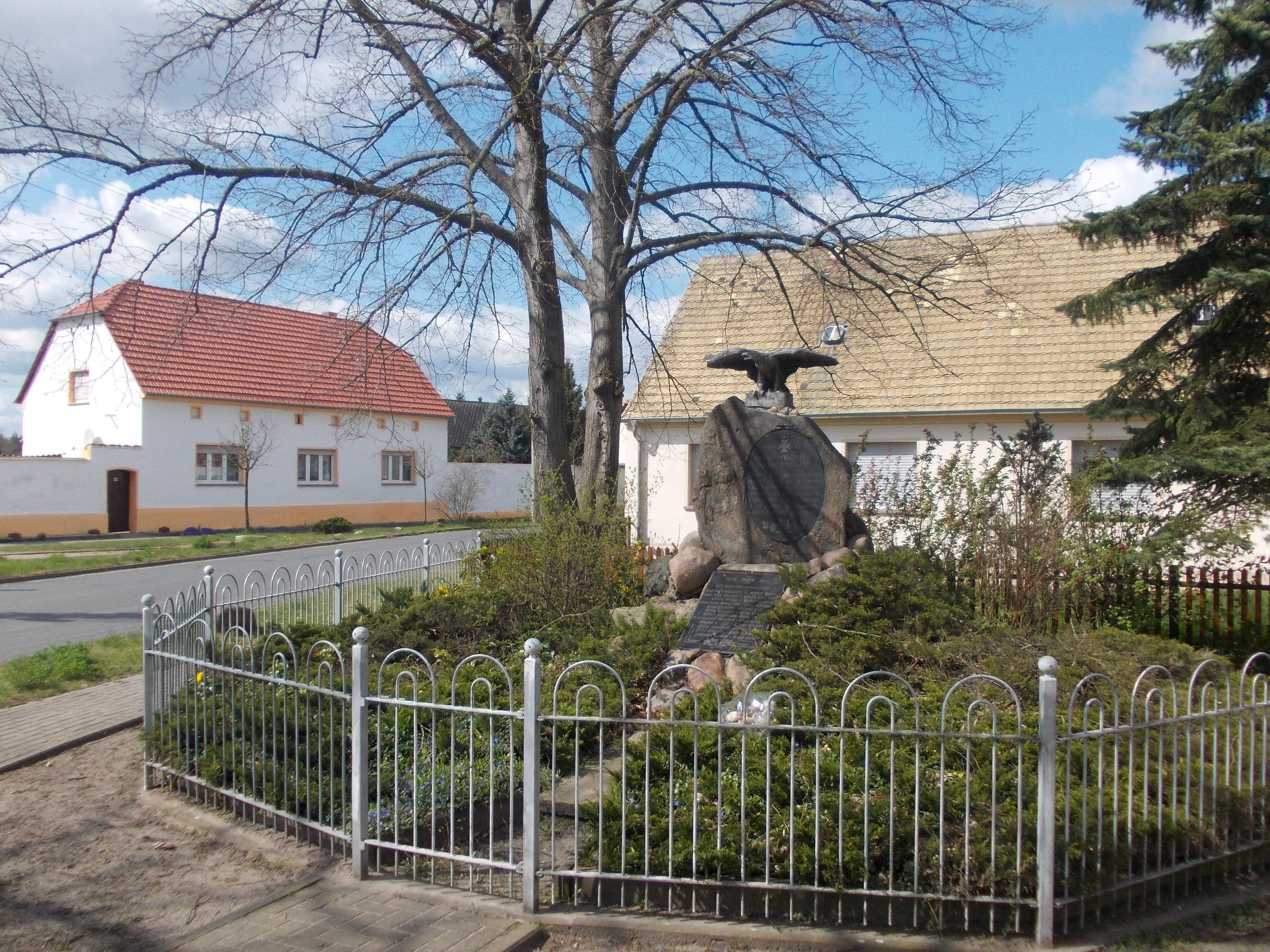 War memorial in Kleinzerbst (Aken, Anhalt-Bitterfeld district, Saxony-Anhalt)